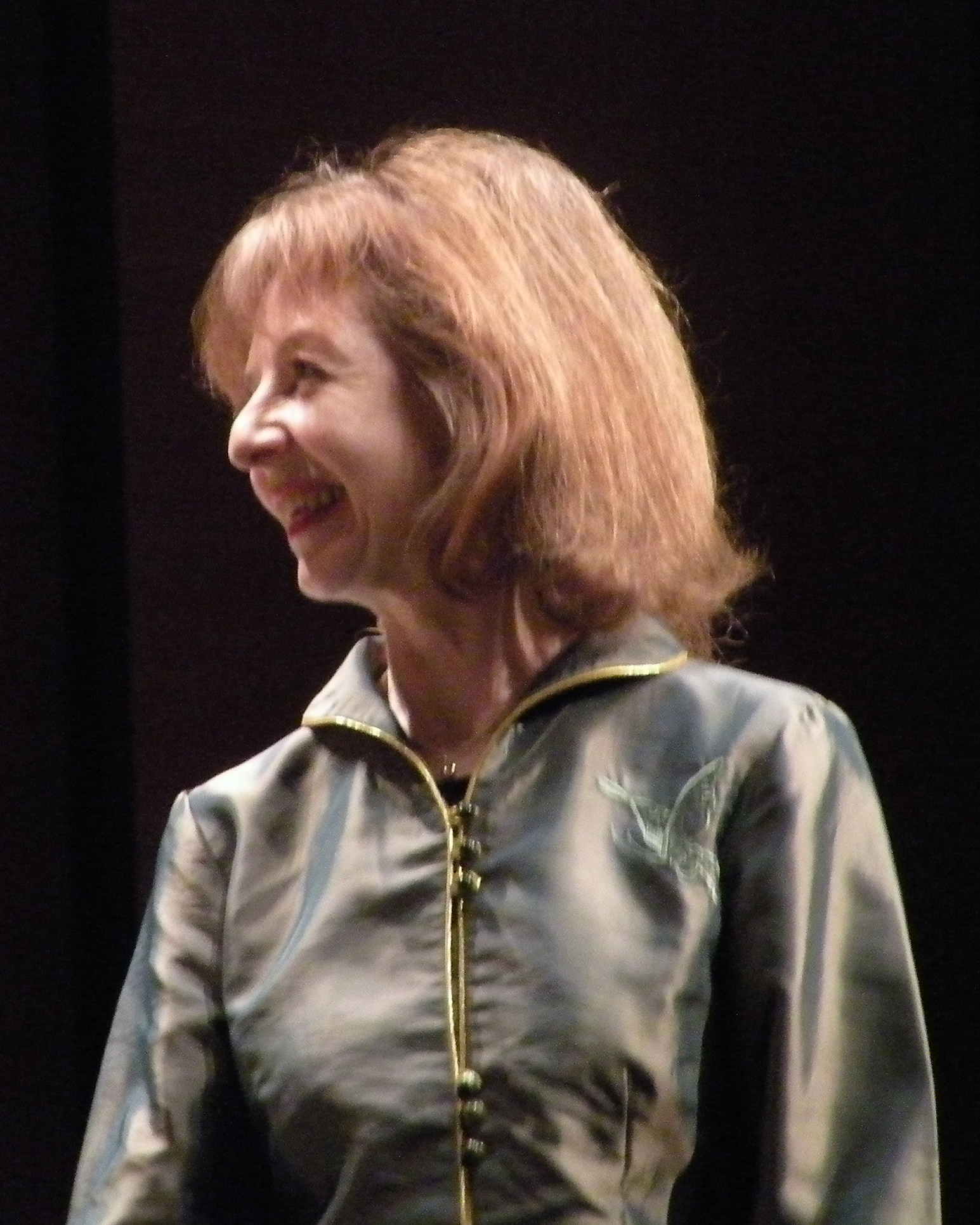 The french pianist Anne Queffélec, on 31 January 2009 during La Folle Journée in Nantes.